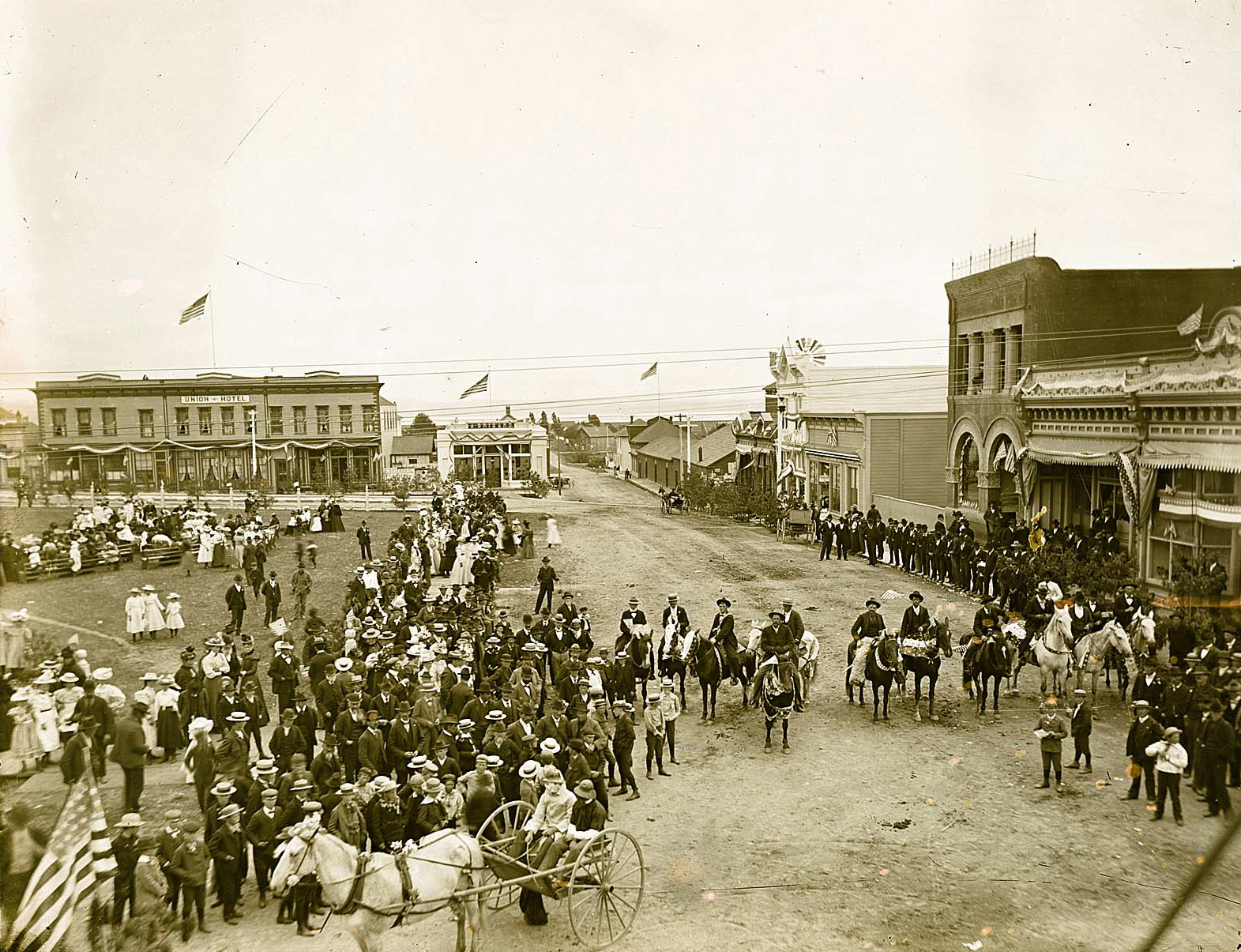 Plaza, Arcata California in the 1890s. Note: Details about the photo discussed at [1]